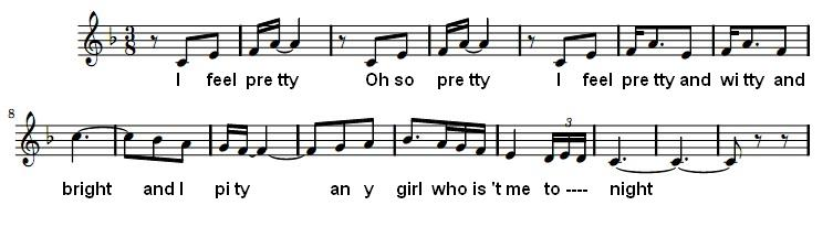 Song I feel pretty from West Side Story by Bernstein et Sondheim